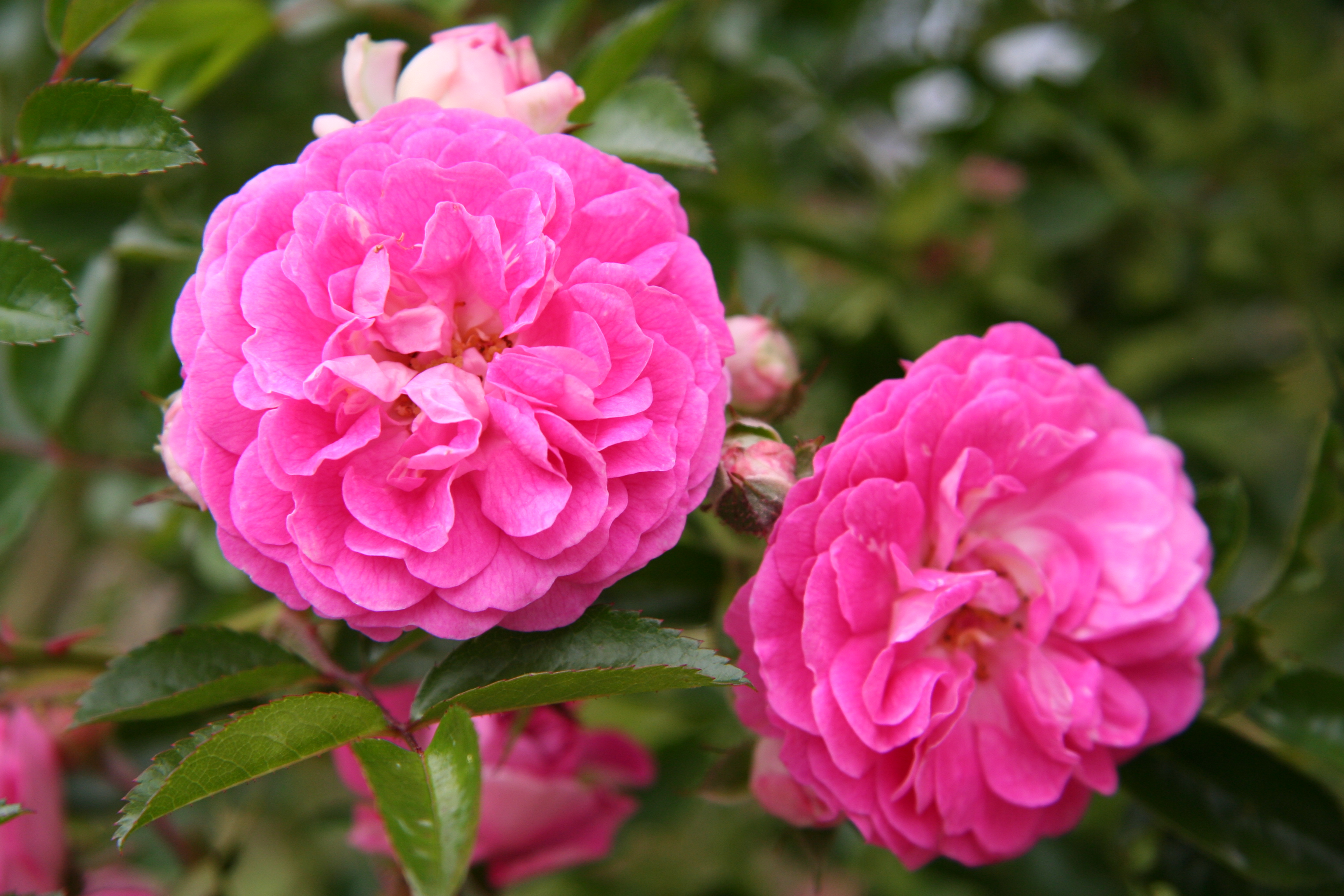 'Dorothy Perkins' rose - Bagatelle Rose Garden (Paris, France).